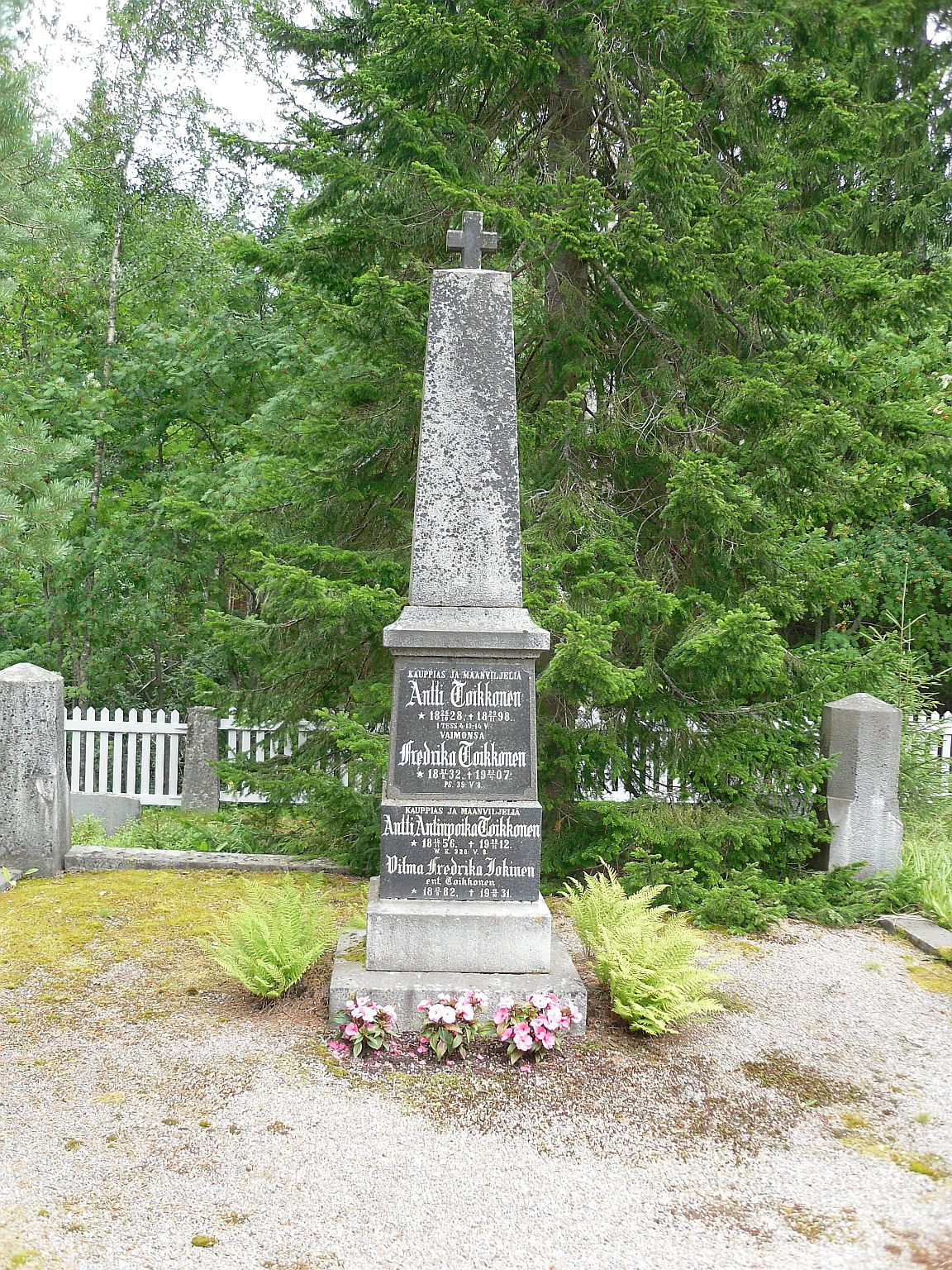 Antti Toikkonen's grave at Kuru old graveyard